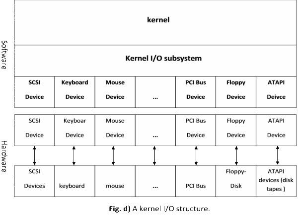 IOinterfacediagram